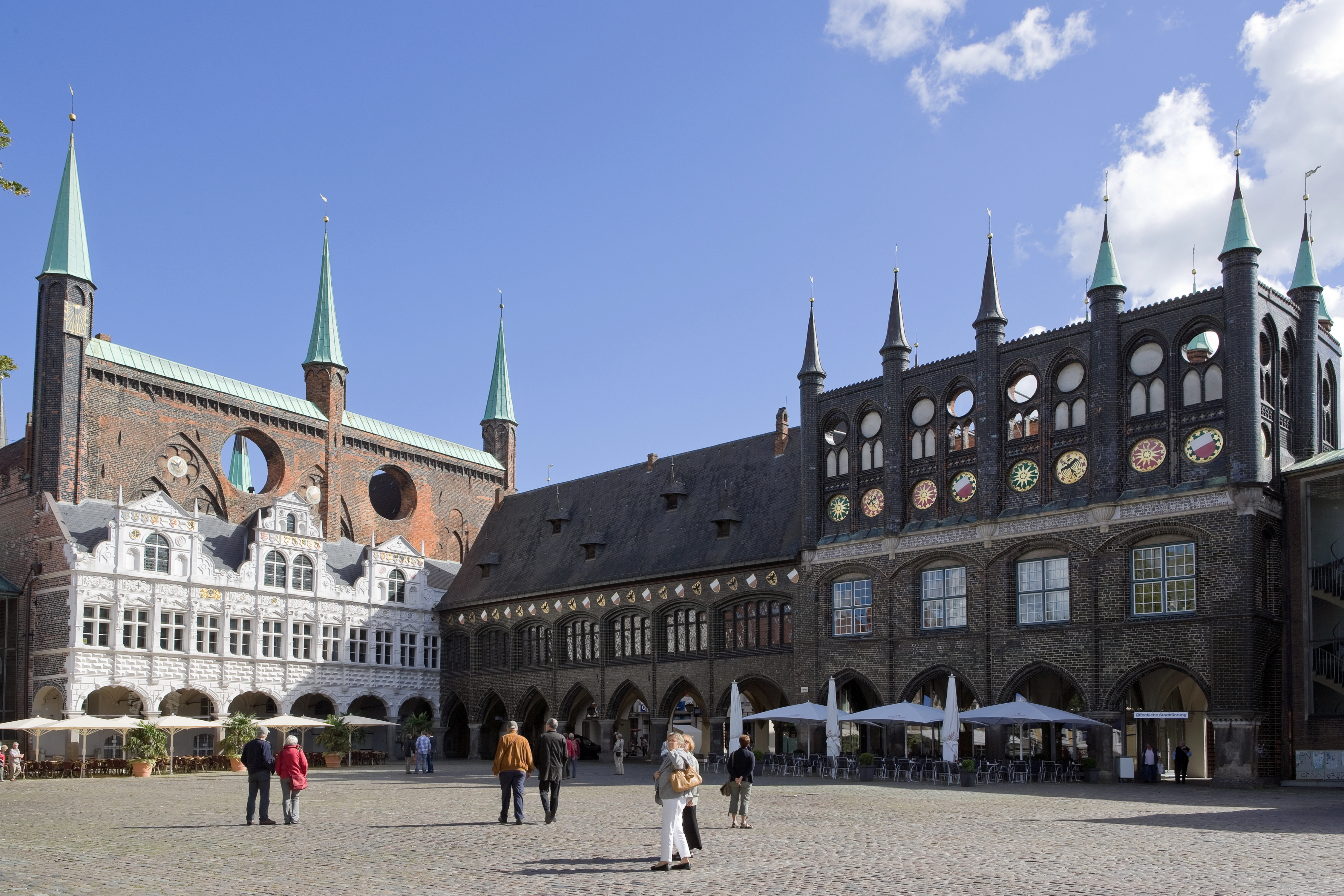 Lübeck: Town hall as seen from the southwest at the Markt (Market)